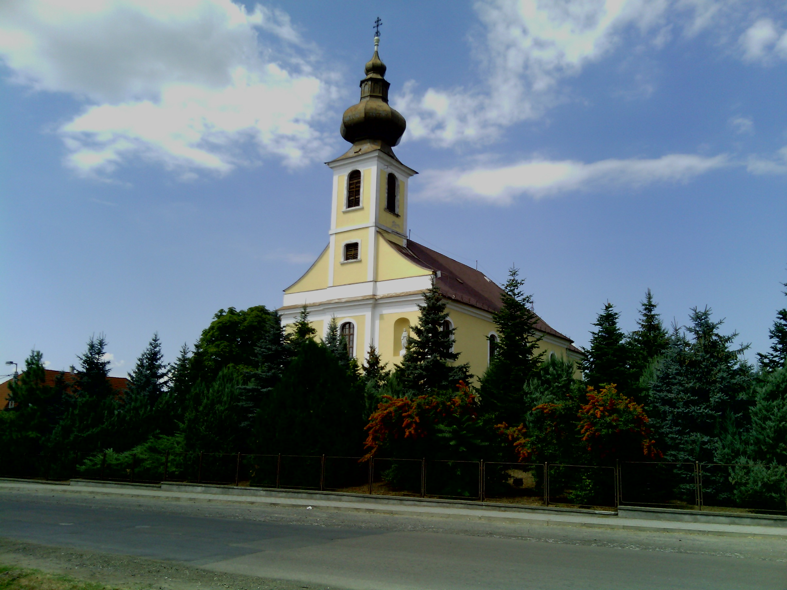 Saints Petr and Paul Church in Kál, Hungary